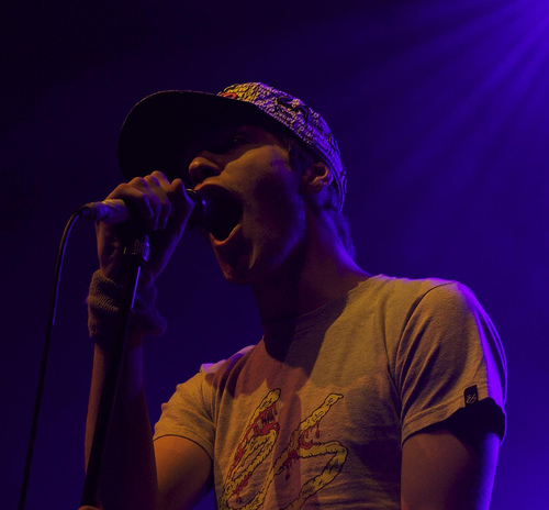 Lead singer James Smith from Hadouken! performs in London (summer 2008)